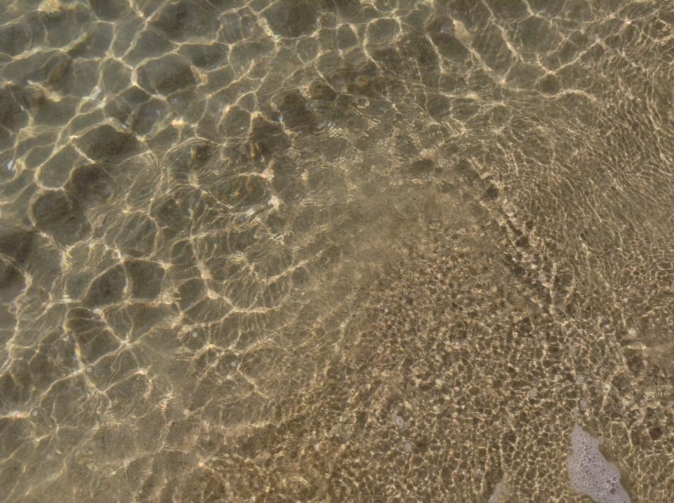 The sea in Marina di Ginosa